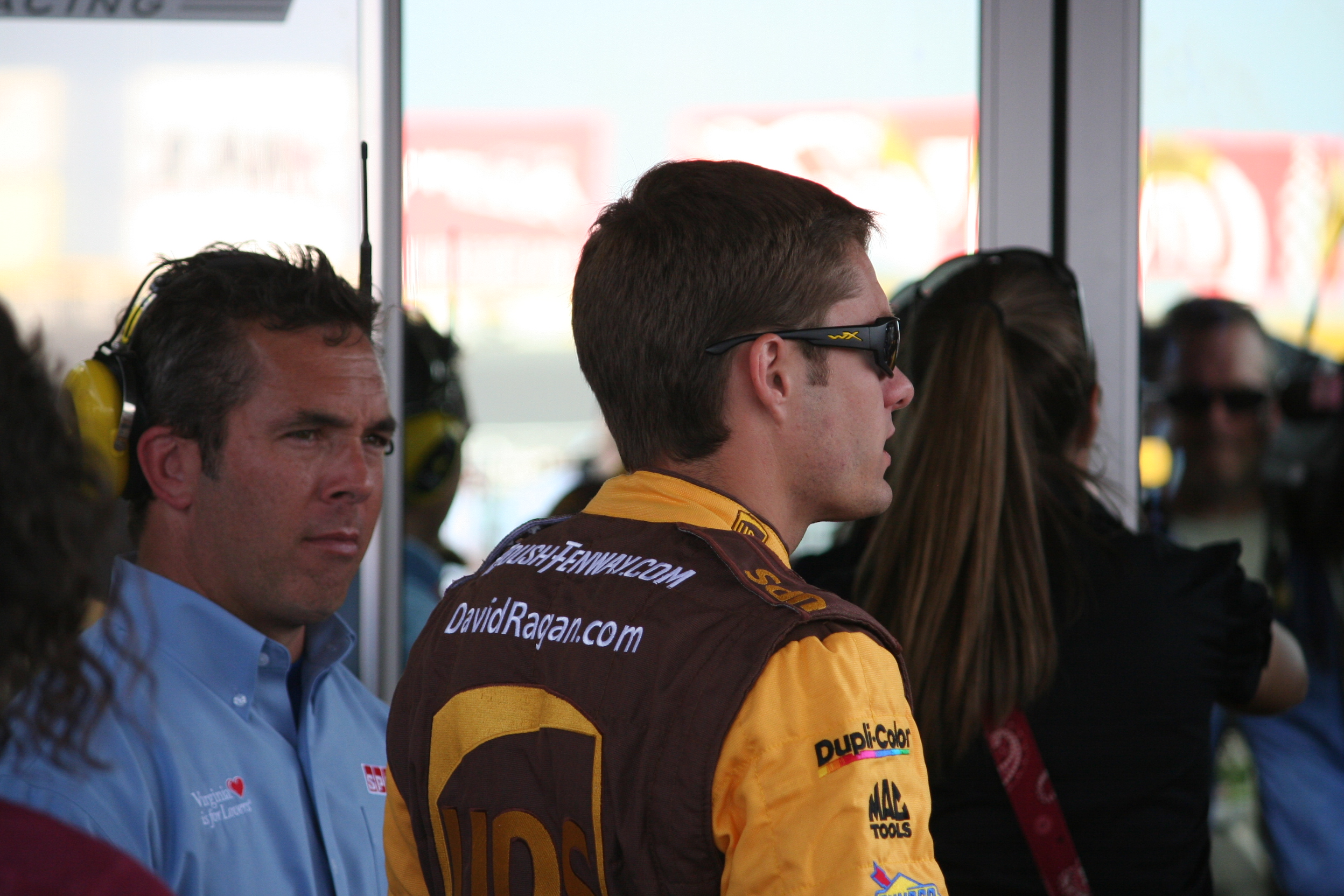 NASCAR on FOX pit reporter and part-time NASCAR driver Hermie Sadler (with David Ragan in foreground) at the Coca-Cola 600 at Charlotte Motor Speedway, May 29, 2011.